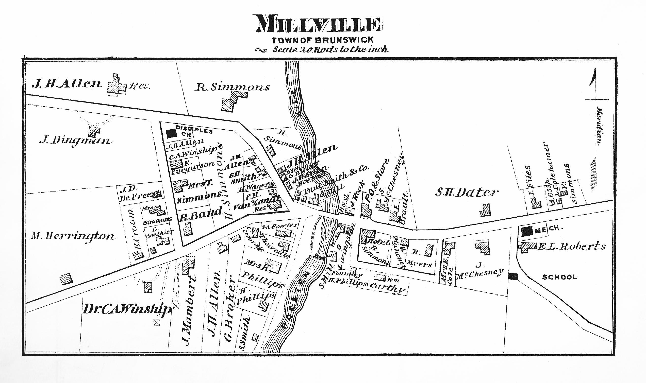 The hamlet of Millville (now known as Eagle Mills) in the town of Brunswick, New York, United States